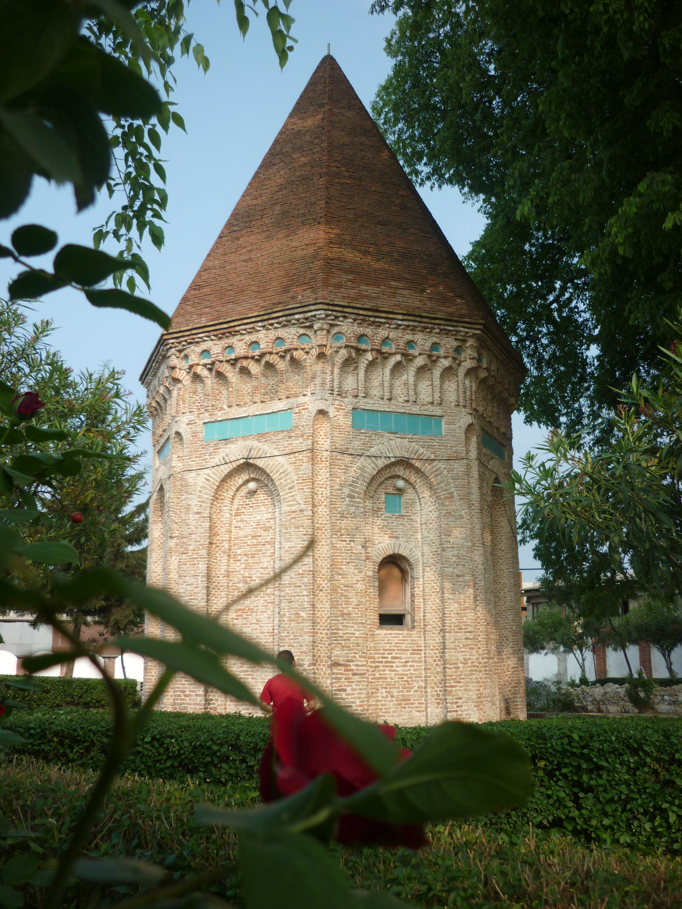 Tomb Mausoleum Mir sayyed Heydar Amuli (Seyyed 3 tan)fakhrul islam and rukn al din Amuli